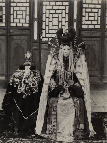 Photograph of Mongolian royalty